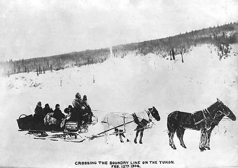 Benjamin S. Downing was born August 1861 in Maine. Before moving to Alaska in 1897, he was living in Rochester, New Hampshire, and working as a stock shipper. In 1900, he was living on the Yukon River north of Eagle and was working as a U.S. mail contractor. He also operated the B.S. Downing Eagle & Dawson Stage Line .Caption on image: Cross the Boundry Line on the Yjkon, Feb. 12th, 1904 .On verso of image: Boundry line between Alaska & N.W.T .Warner [2097]Filed in Alaska series. Subjects (LCTGM): Sleds & sleighs--Alaska; Transportation--Alaska; Horse teams--Alaska Subjects (LCSH): Alaska--Boundaries; Northwest Territories--Boundaries; United States--Boundaries ; Canada--Boundaries; B.S. Downing Eagle & Dawson Stage Line--Equipment & supplies--Alaska